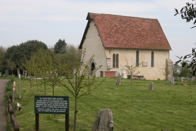 Church Norton. The Chapel of St Wilfrid Church Norton, dating back to the 12th Century and once the chancel of the parish church.